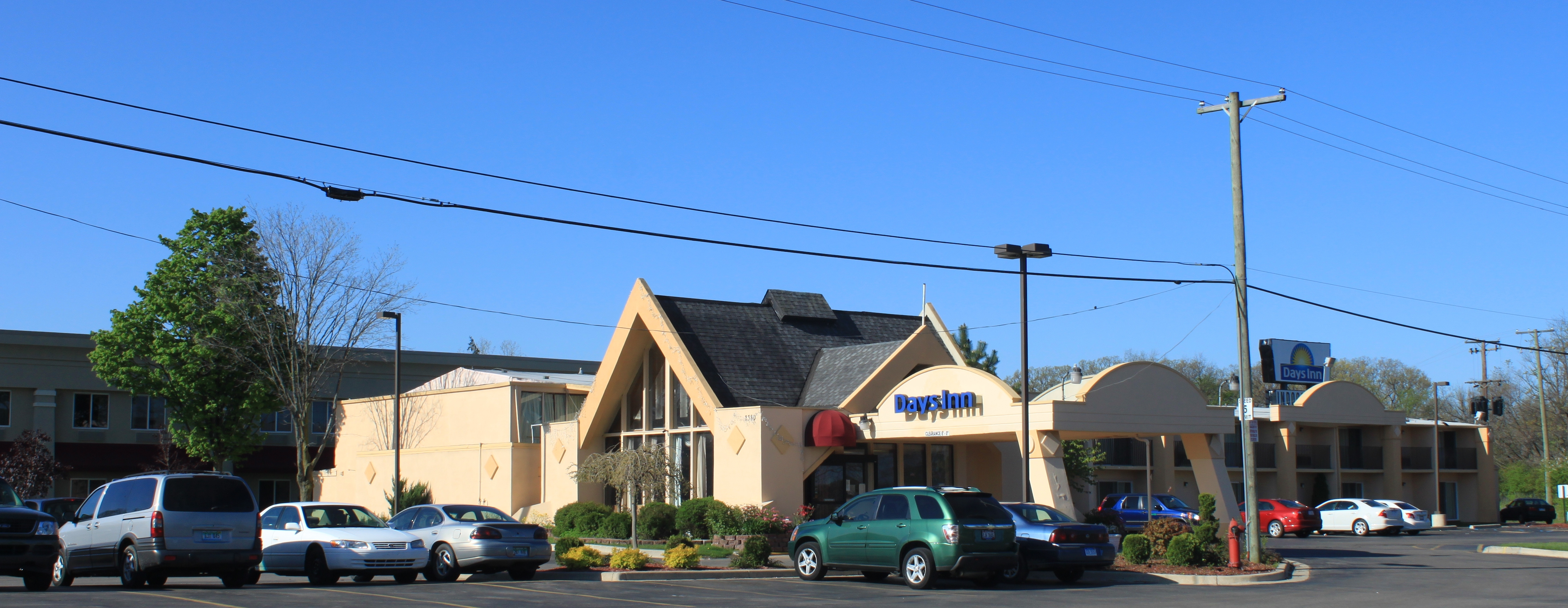 Days Inn, 2380 Carpenter Rd., Ann Arbor (Pittsfield Twp.), MI, 48108